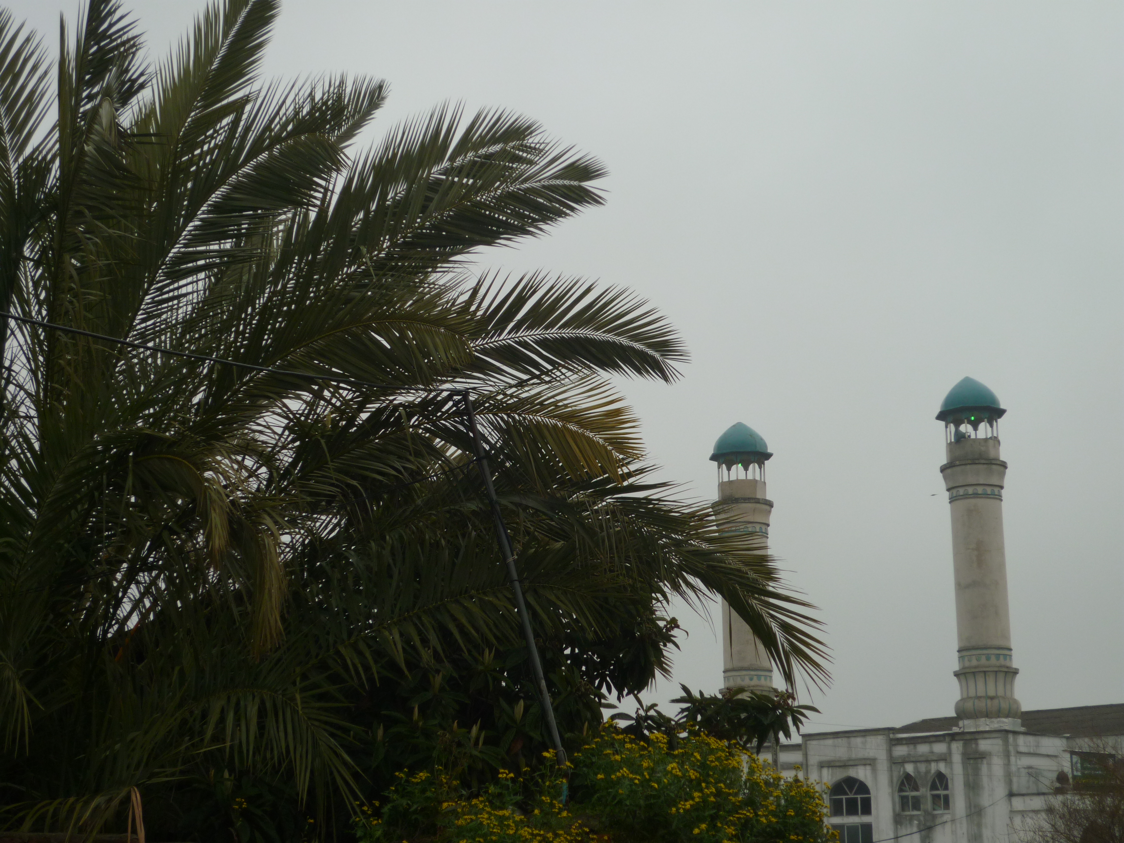 Haj ali koochak mosque mazandaran